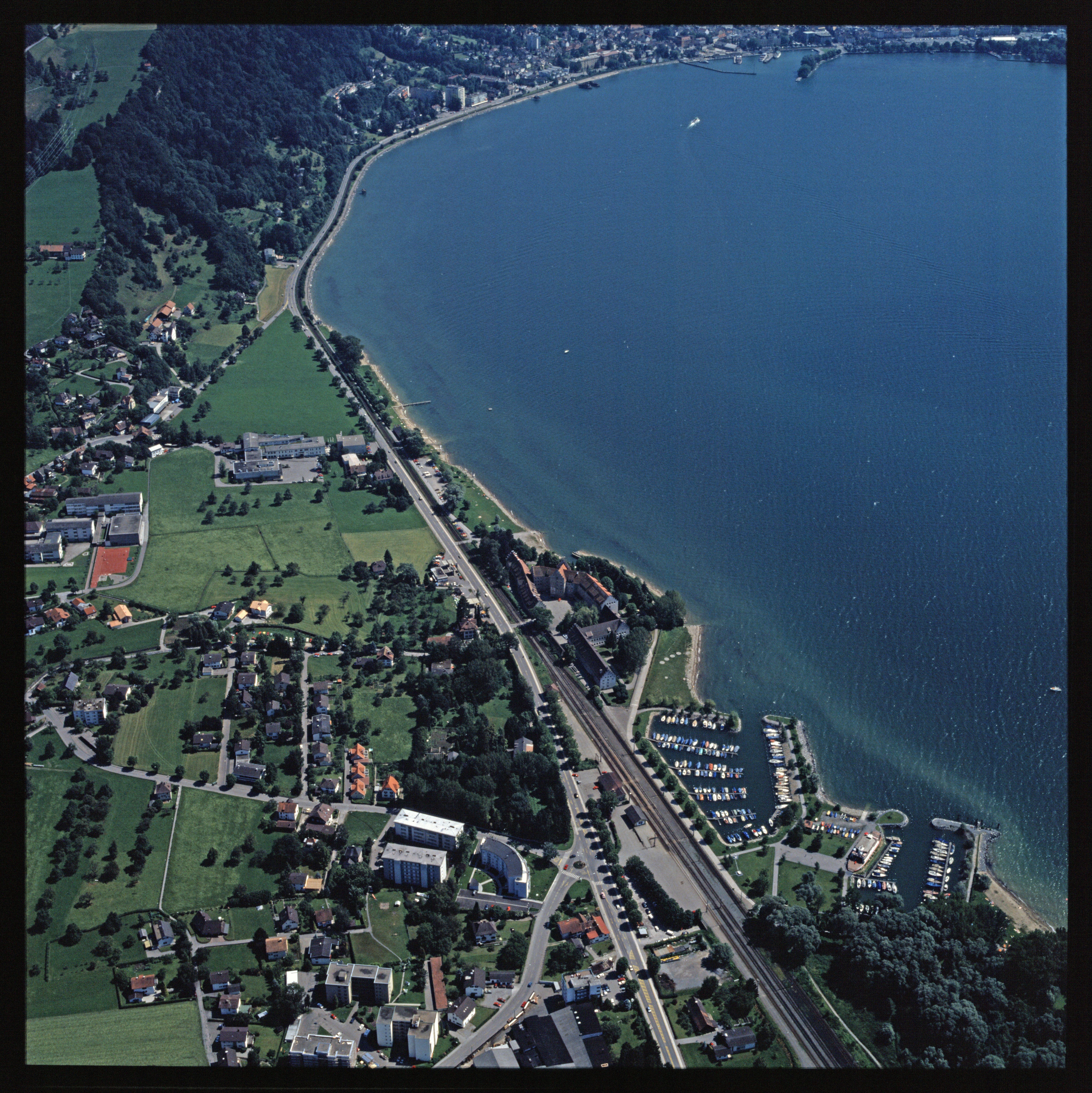 Lochau, Vorarlberg, Austria (Lochau, Klause, L 190, Villa Gravenreuth, Klausberg, Klausturm, Hafen Bäumle) from the collection: Helmuth Klapper, Vorarlberger Landesbibliothek (volare). East bank of Lake Constance.